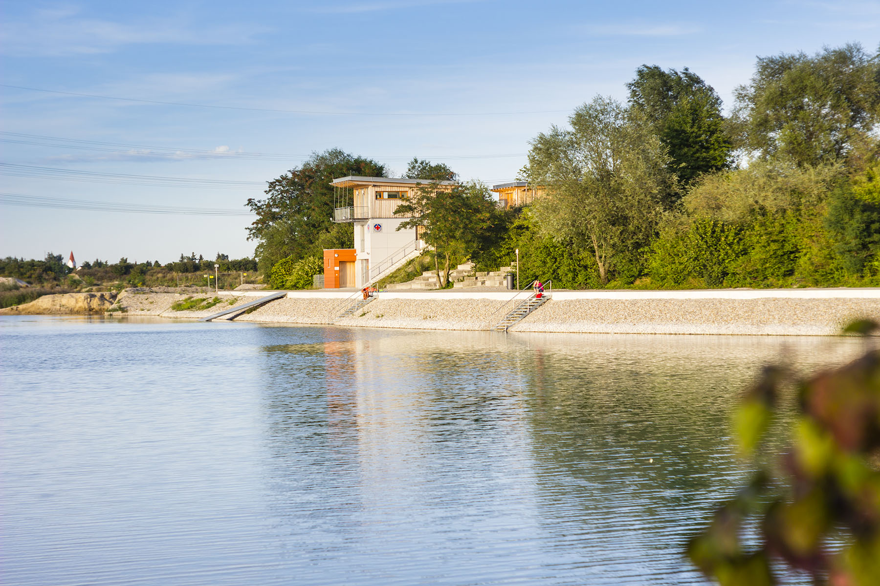 Lake Hollern Rescue station